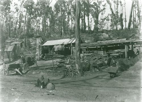 1908. Grant's Saw Mill, Mills Road, Yinnar South, Victoria. A wagon is standing in front of the mill and a man is pushing a wheelbarrow